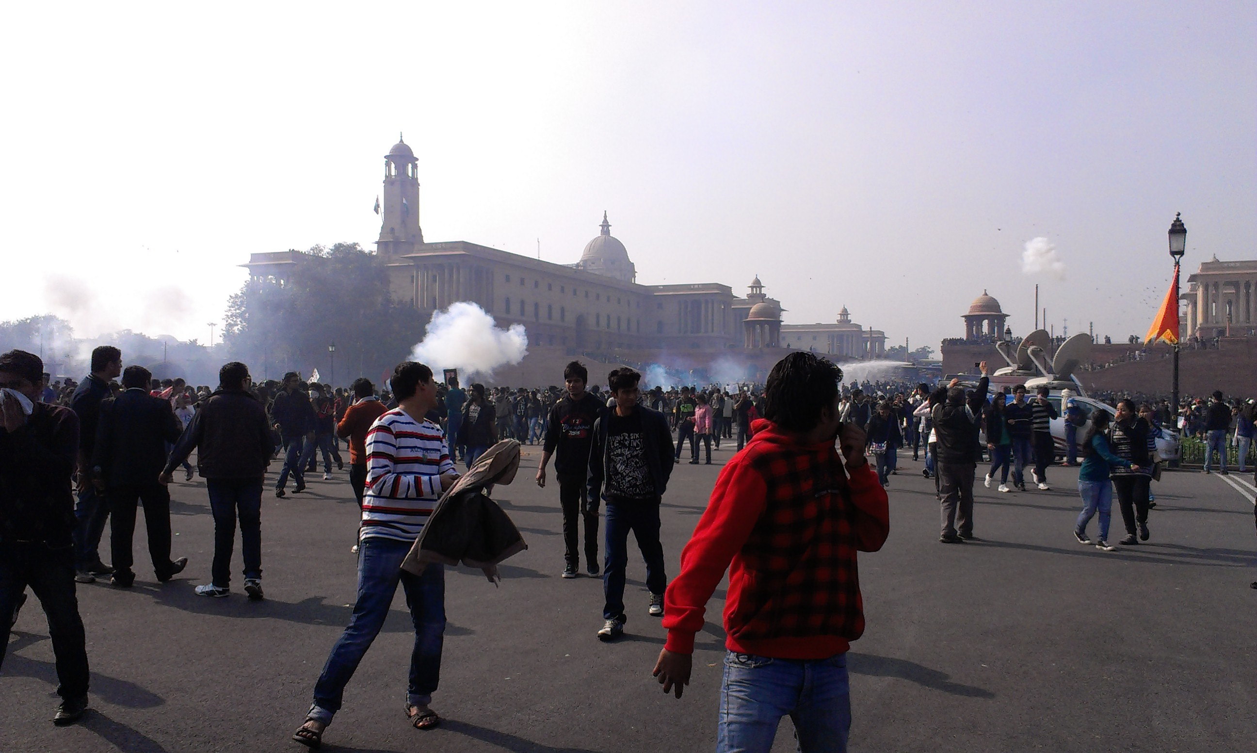 December 22, students protest the rising violence against women, Raisina Hill/ Rajpath; police used water cannons and teargas to try and break up the protestors